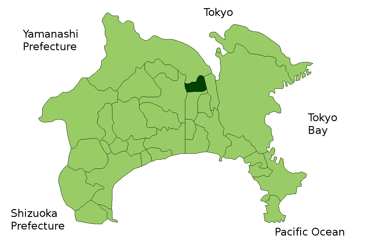 Location Map of Zama in Kanagawa Prefecture, Japan